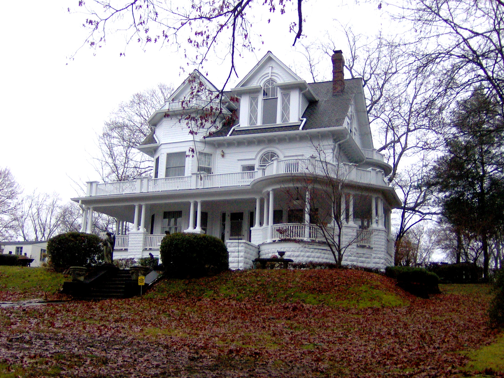 Monte Vista (514 Cumberland Street), built in 1905 by Robert and Perle Hill Cassell, in the Cornstalk Heights Historic District of Harriman, Tennessee, USA.